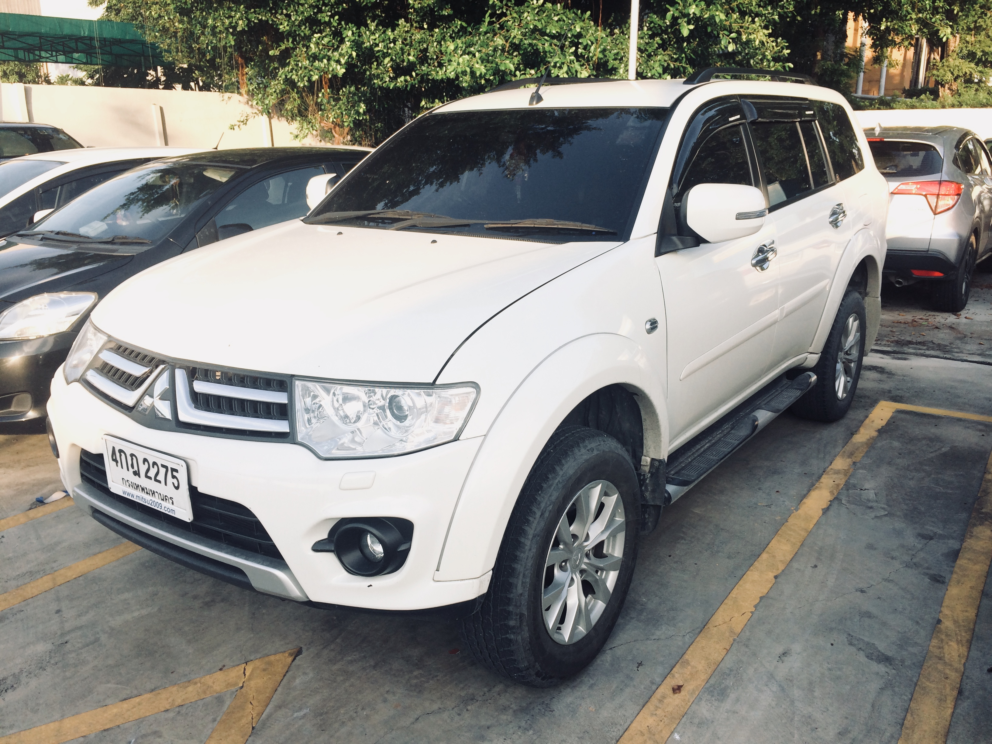 2014-2015 Mitsubishi Pajero Sport 2.5 GT SUV (19-10-2017) in Bangkok Thailand.